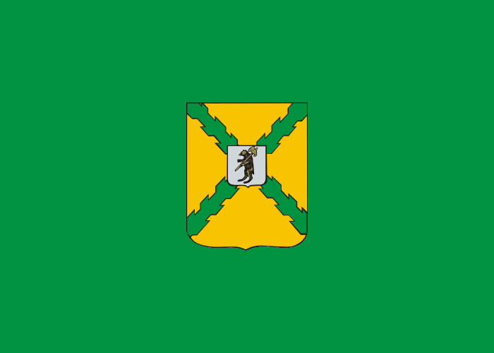 Flag of Poshekhonsky District of Yaroslavl oblast (2000)